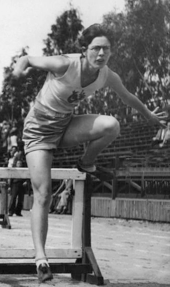 1932 Press Photo Simnie Schaller, Marion Fitting, Ann Vrana OBrien at track